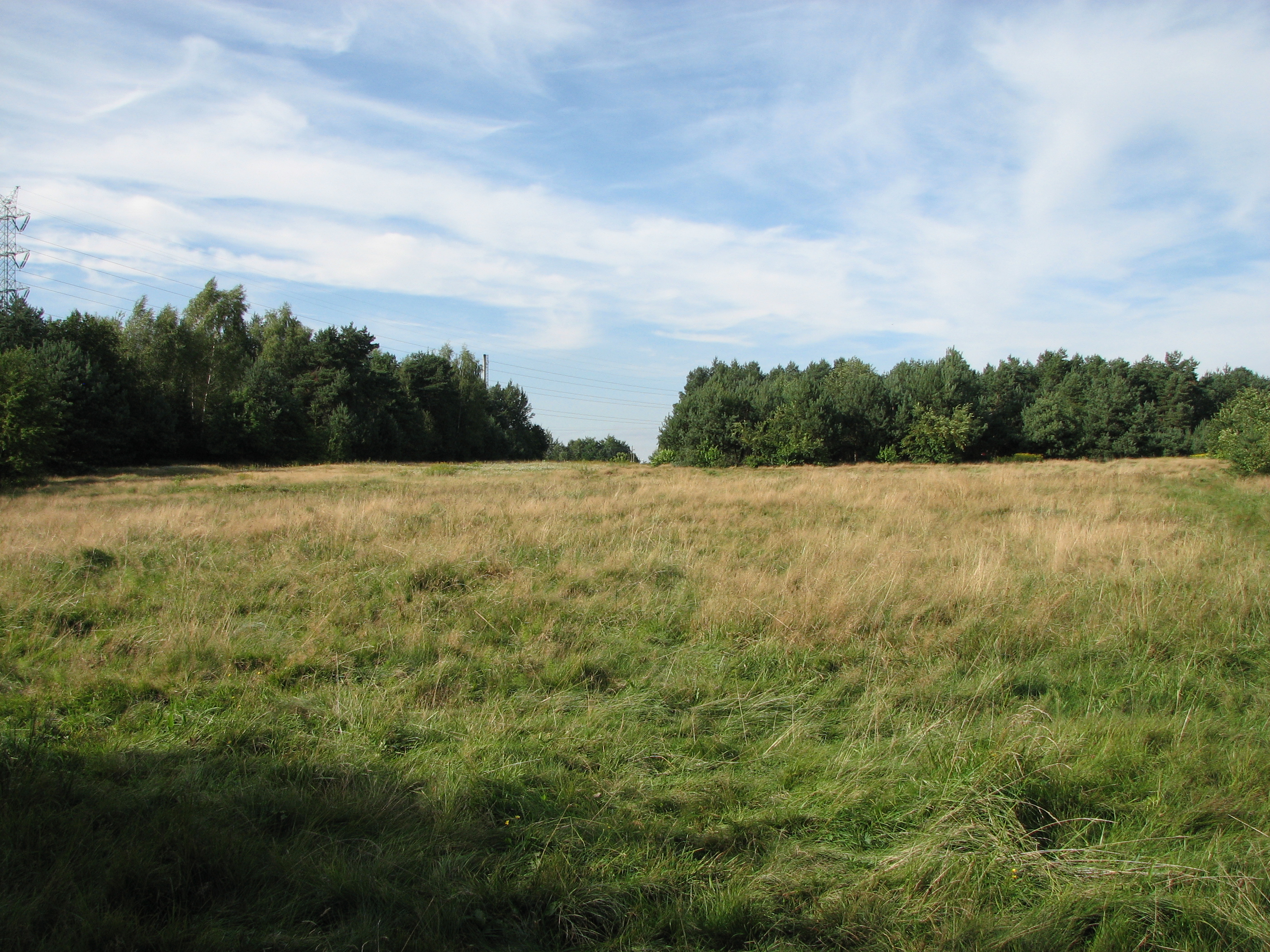 Panewniki's Forests in Katowice, Poland